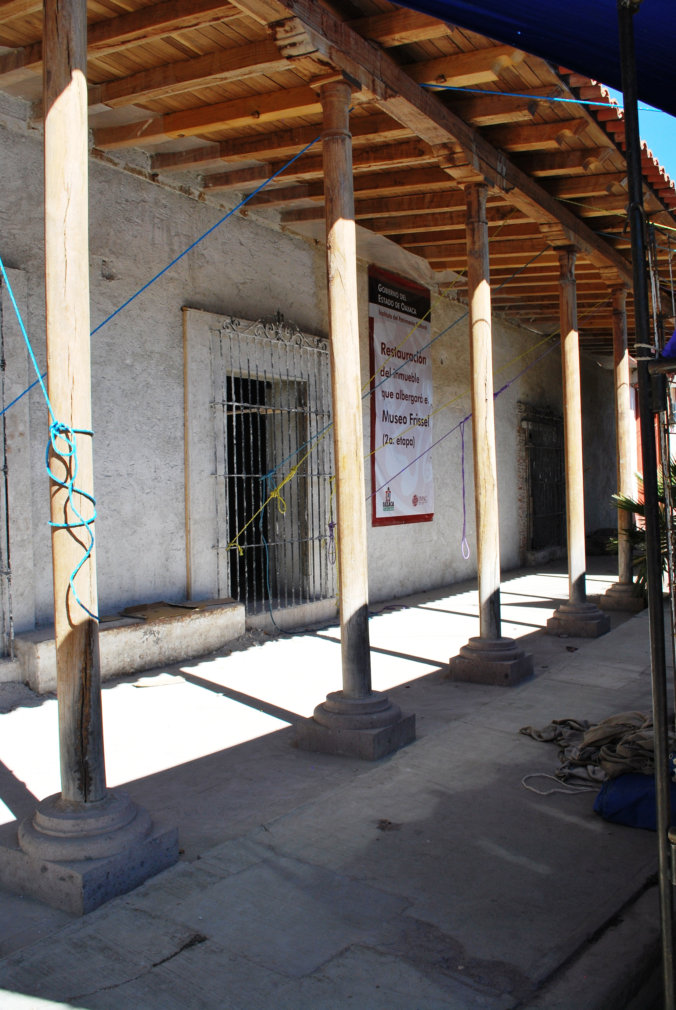 The Frissell Museum building in Mitla, Oaxaca with sign stating that it is under renovation.